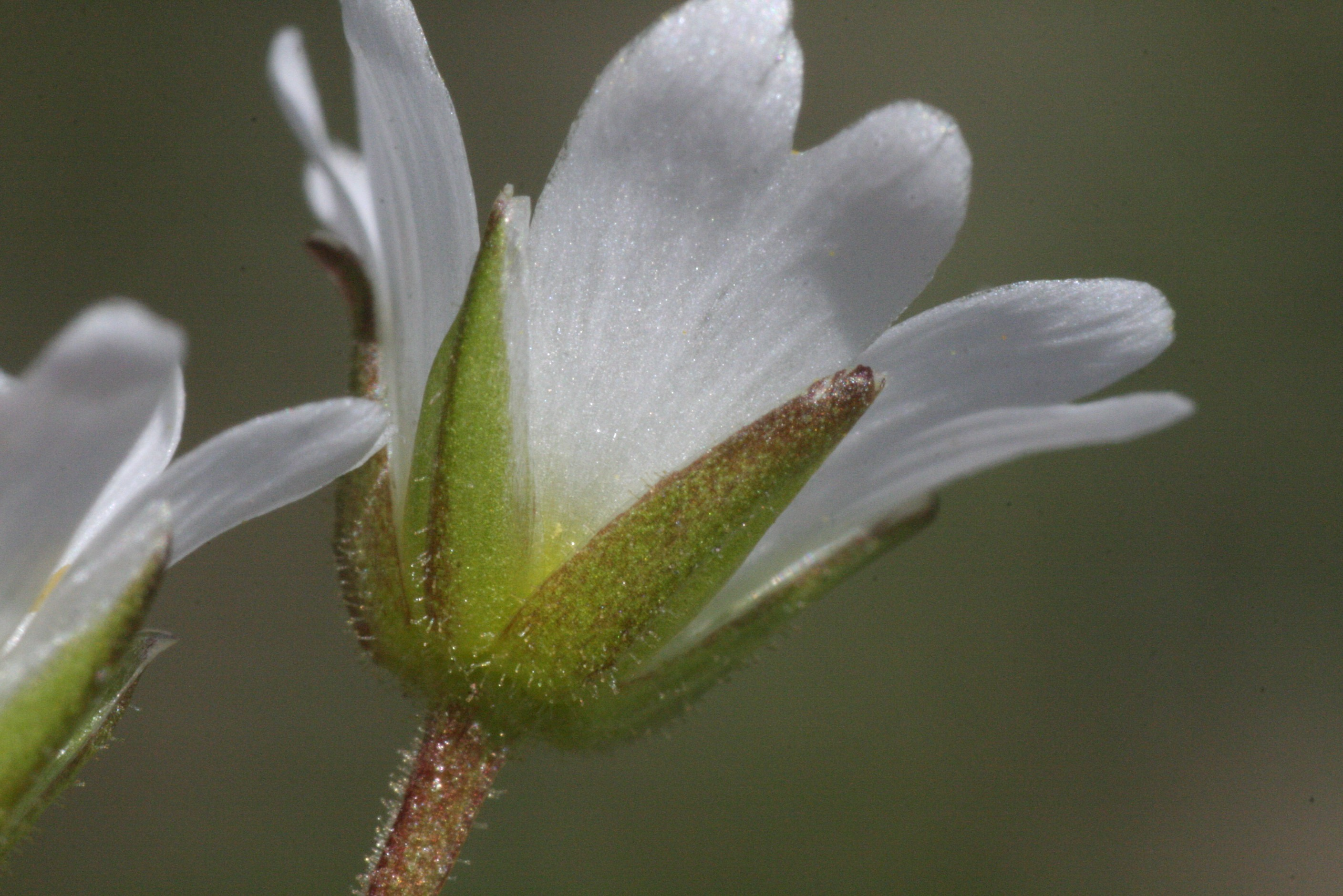 Cerastium cerastoides